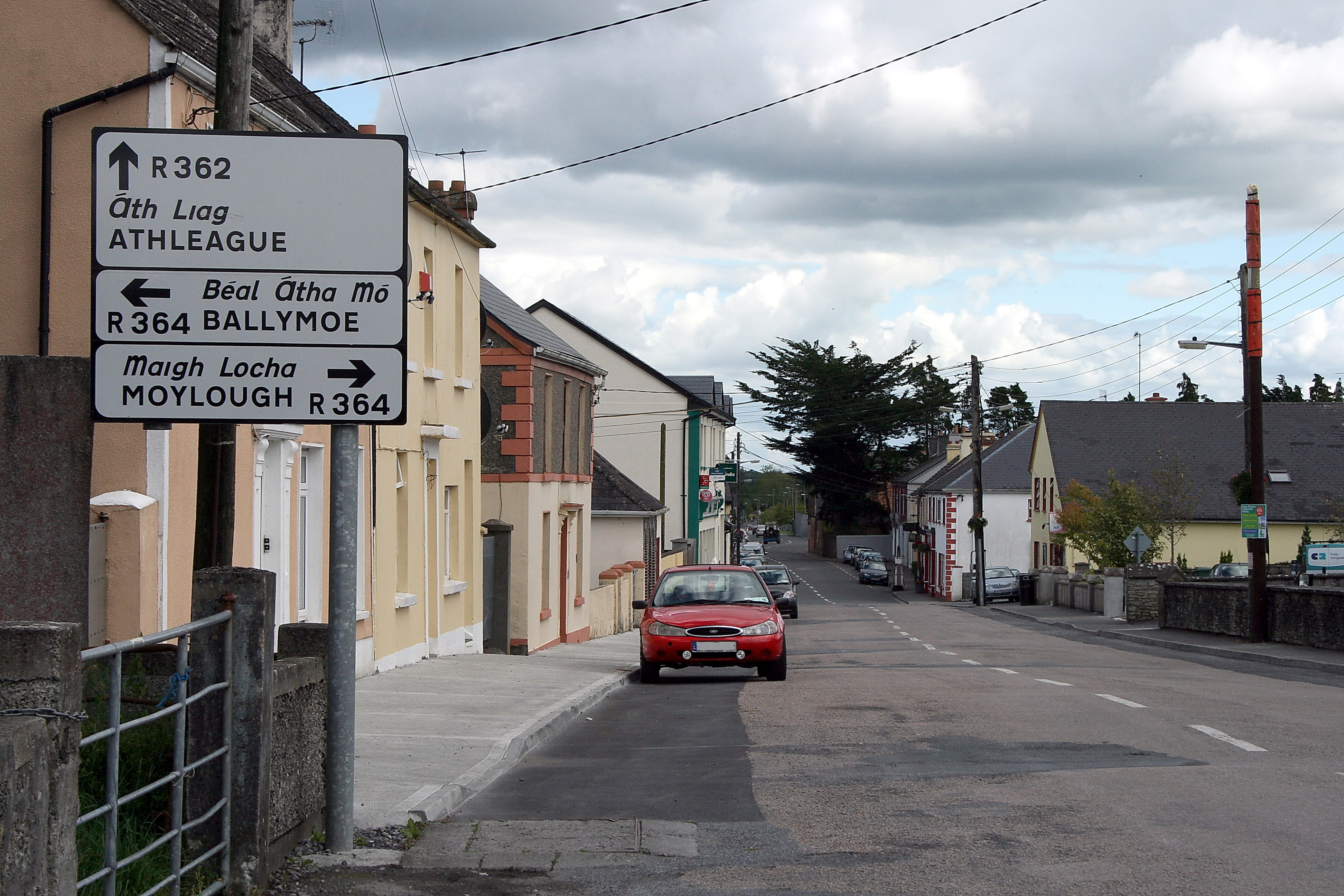 The Valley of the Dogs, County Galway Actually it's not my work, it was already public domain, slightly changed by me, but I couldn't find a suitable tag.